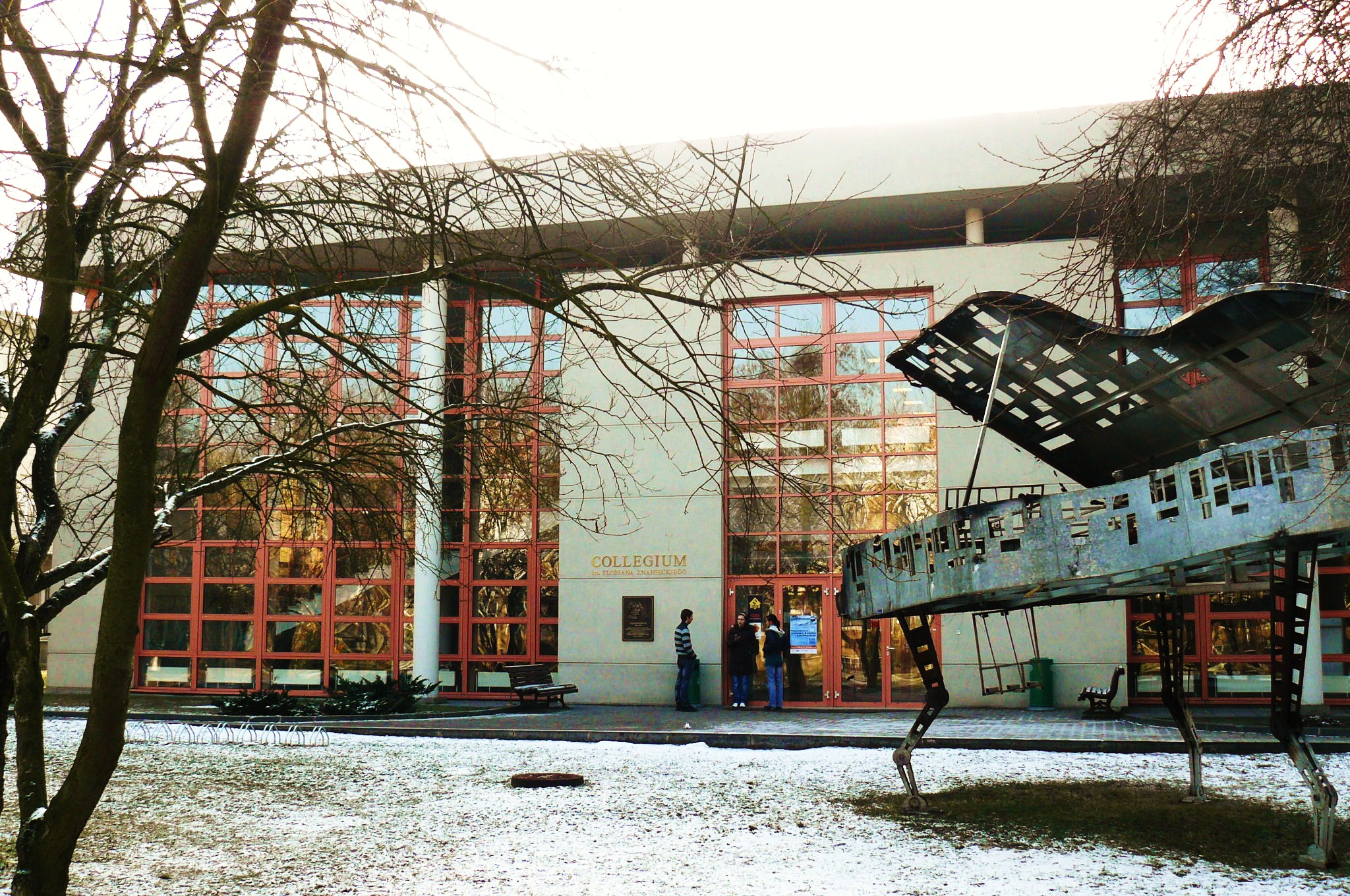 Collegium Znanieckiego, Poznan.